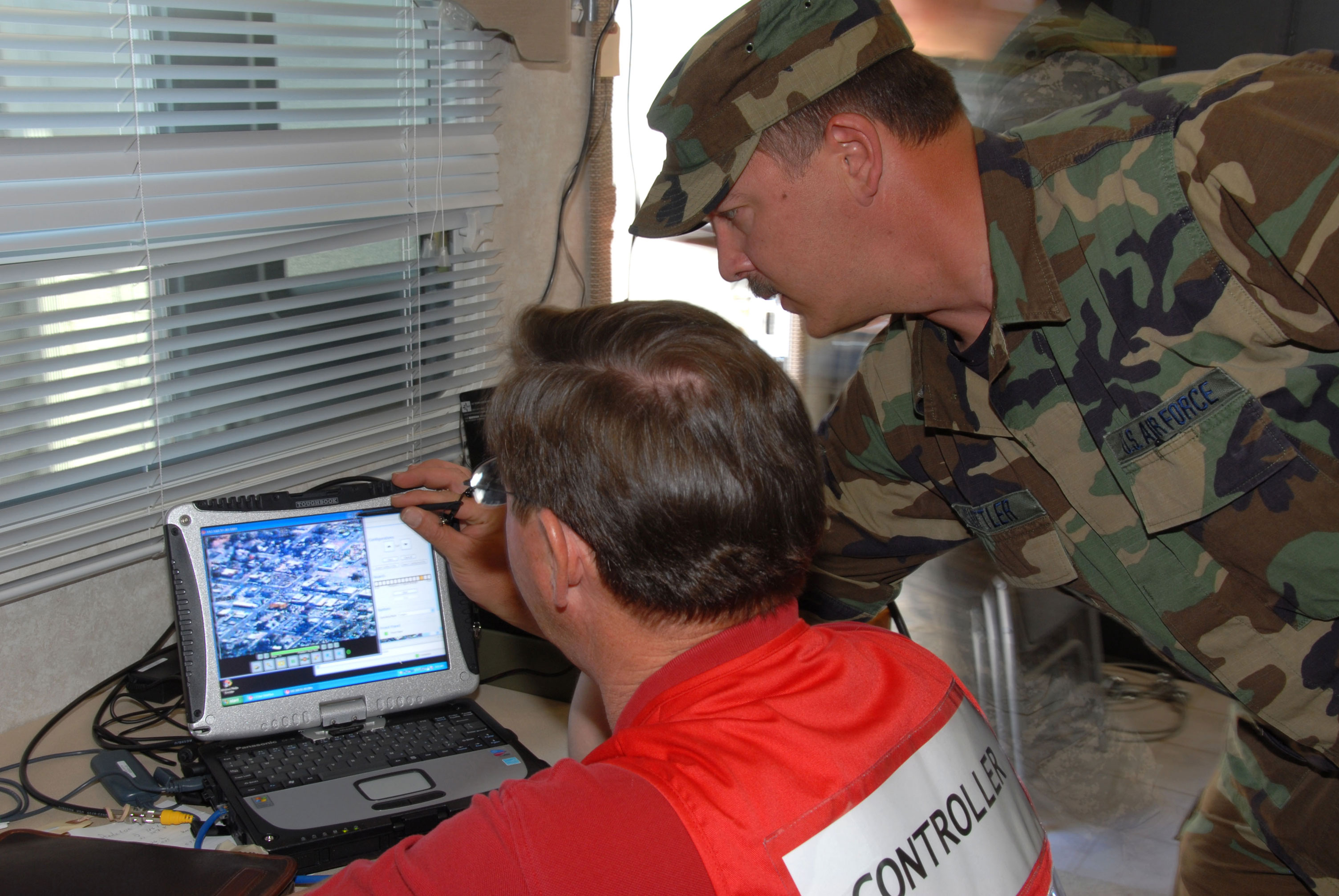 Tech. Sgt. Brian Guettler, right, an airman in the Nevada National Guard's Counterdrug Task Force, and Steve Endacott, the Vigilant Guard exercise coordinator for Churchill County, prepare the remote operated video enhanced receiver (ROVER) to receive a video signal from the MQ-1 Predator unmanned aerial vehicle in Fallon, Nev., on June 13. (U.S. Air Force photo by Tech. Sgt. Shelly Burroughs)